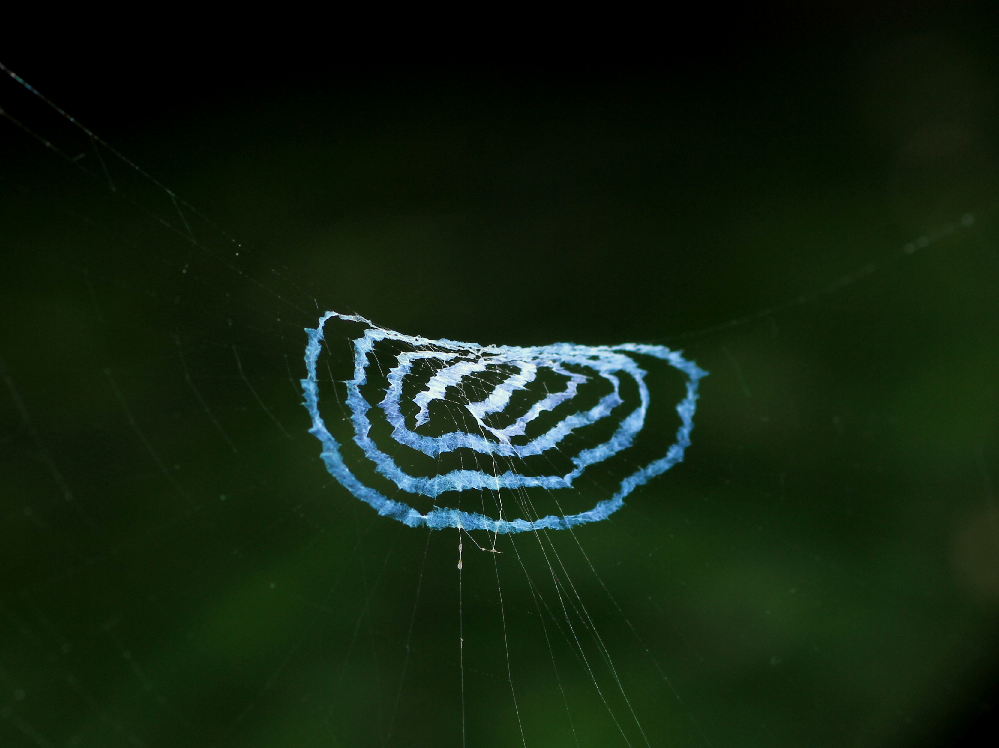 Spider web near Cikaniki Research Station, Halimun - Salak National Park